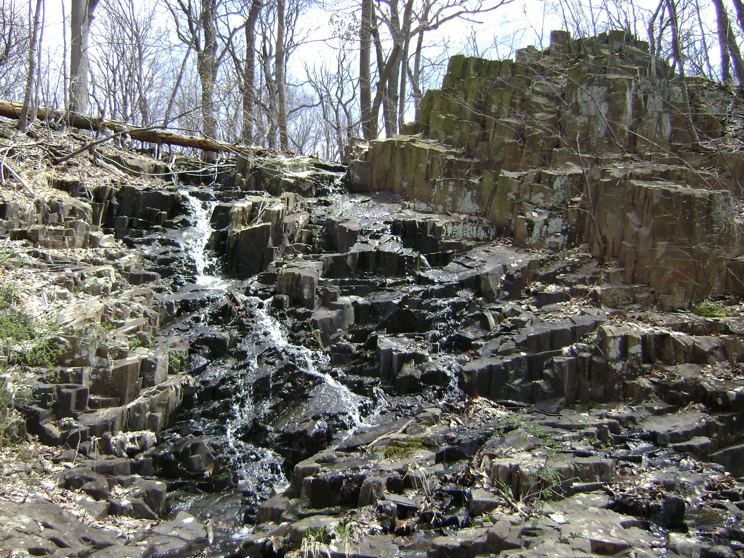 Water cascades down the traprock (Preakness Basalt) surface of upper Buttermilk Falls in High Mountain Park Preserve, Watchung Mountains.